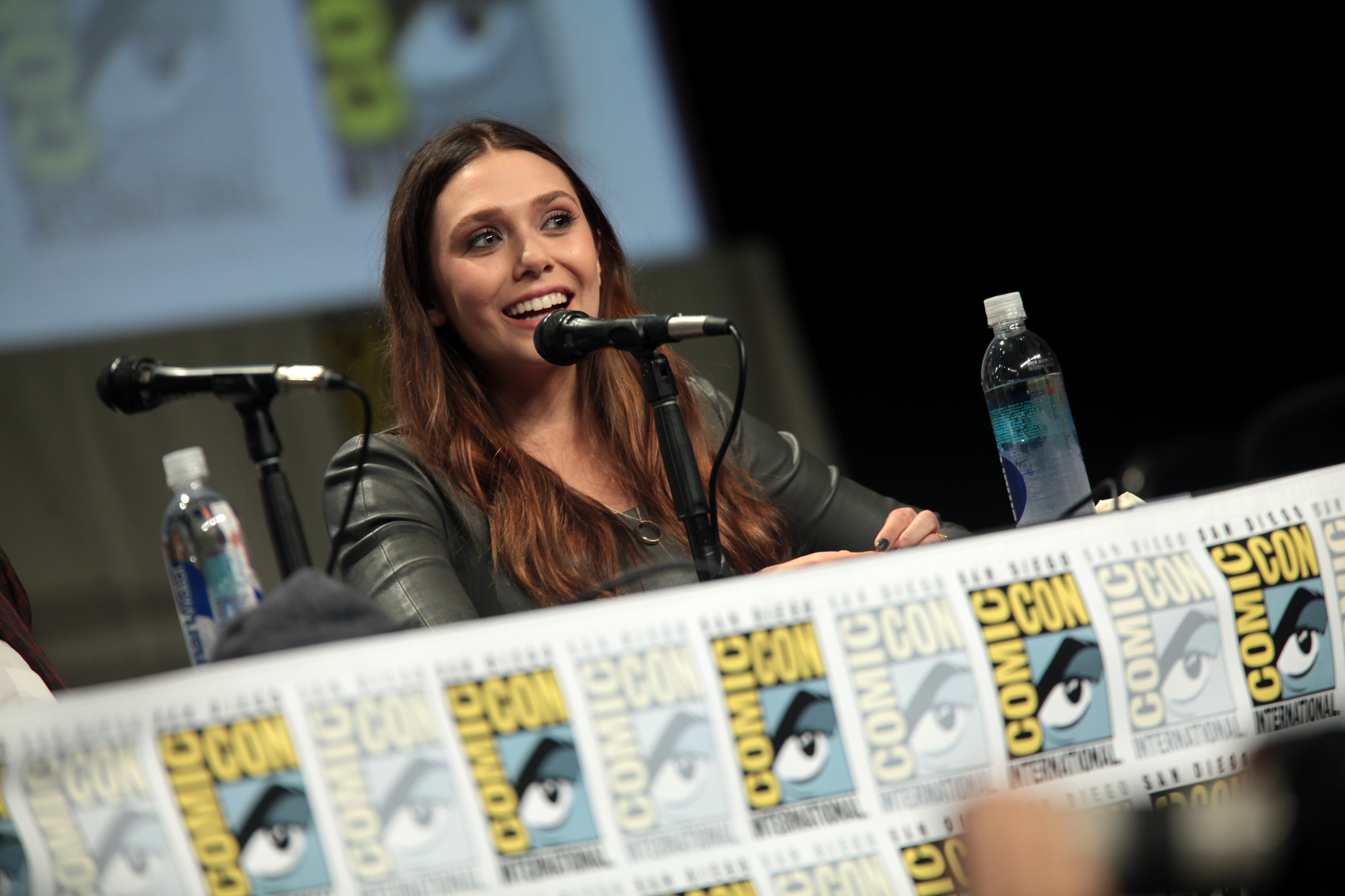 Elizabeth Olsen speaking at the 2014 San Diego Comic Con International, for "Avengers: Age of Ultron", at the San Diego Convention Center in San Diego, California.